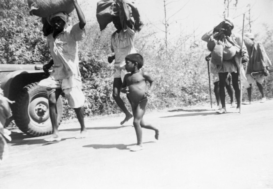 Burmese refugees flee along he Prome Road into India, January 1942